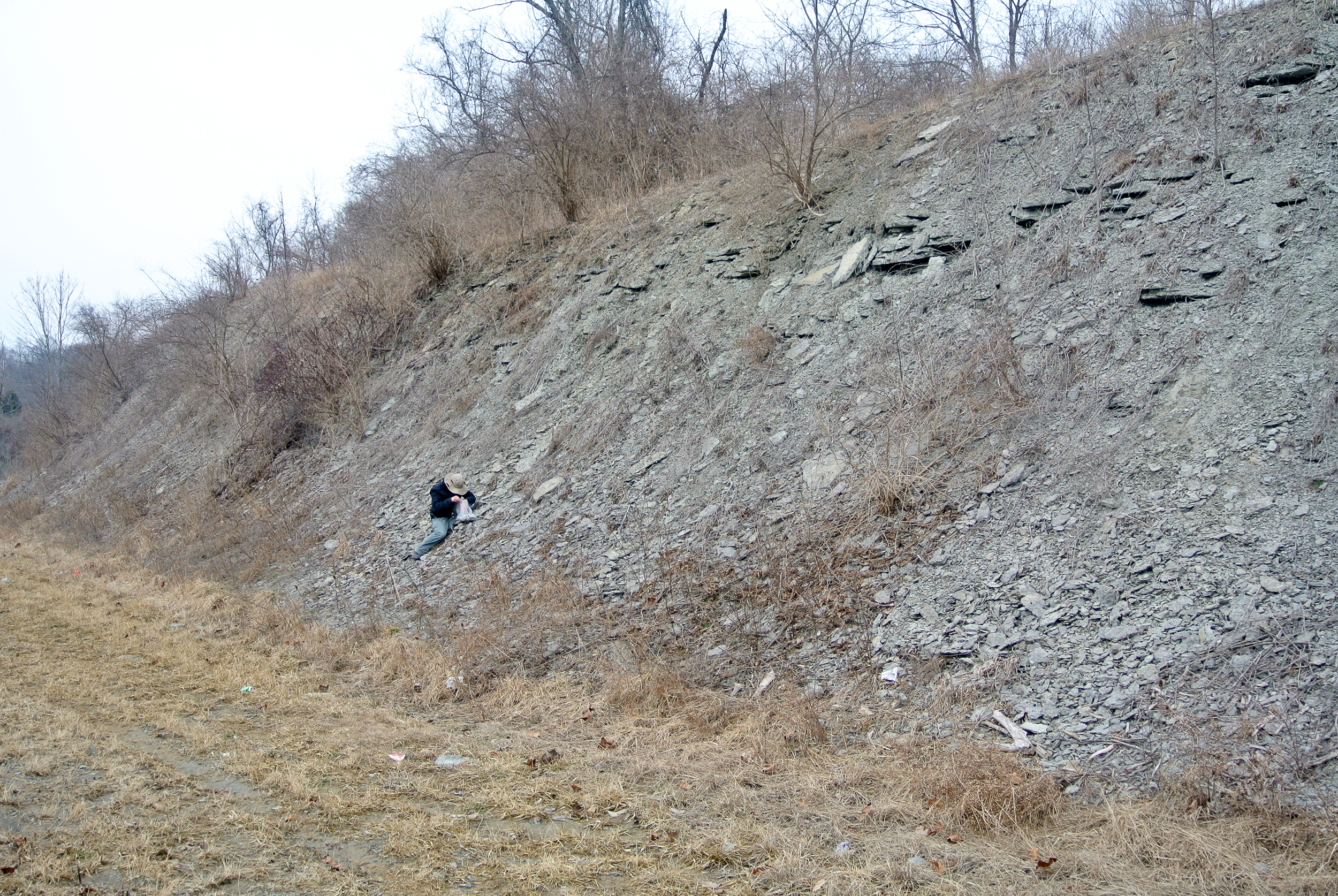 Grant Lake Formation (Upper Ordovician) along the Idlewild Bypass (KY-8) in Boone County, Kentucky (N 39.081120°, W 84.792434°).